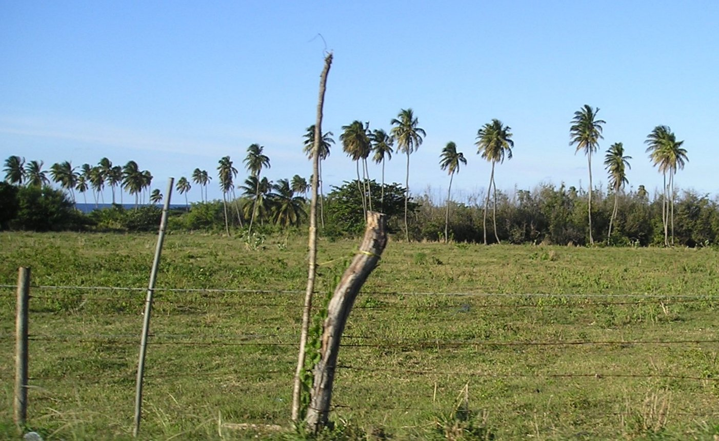 Palms nearby Hatillo Pueblo, seen from the interstate 2, in the municipality of Hatillo, Puerto Rico.